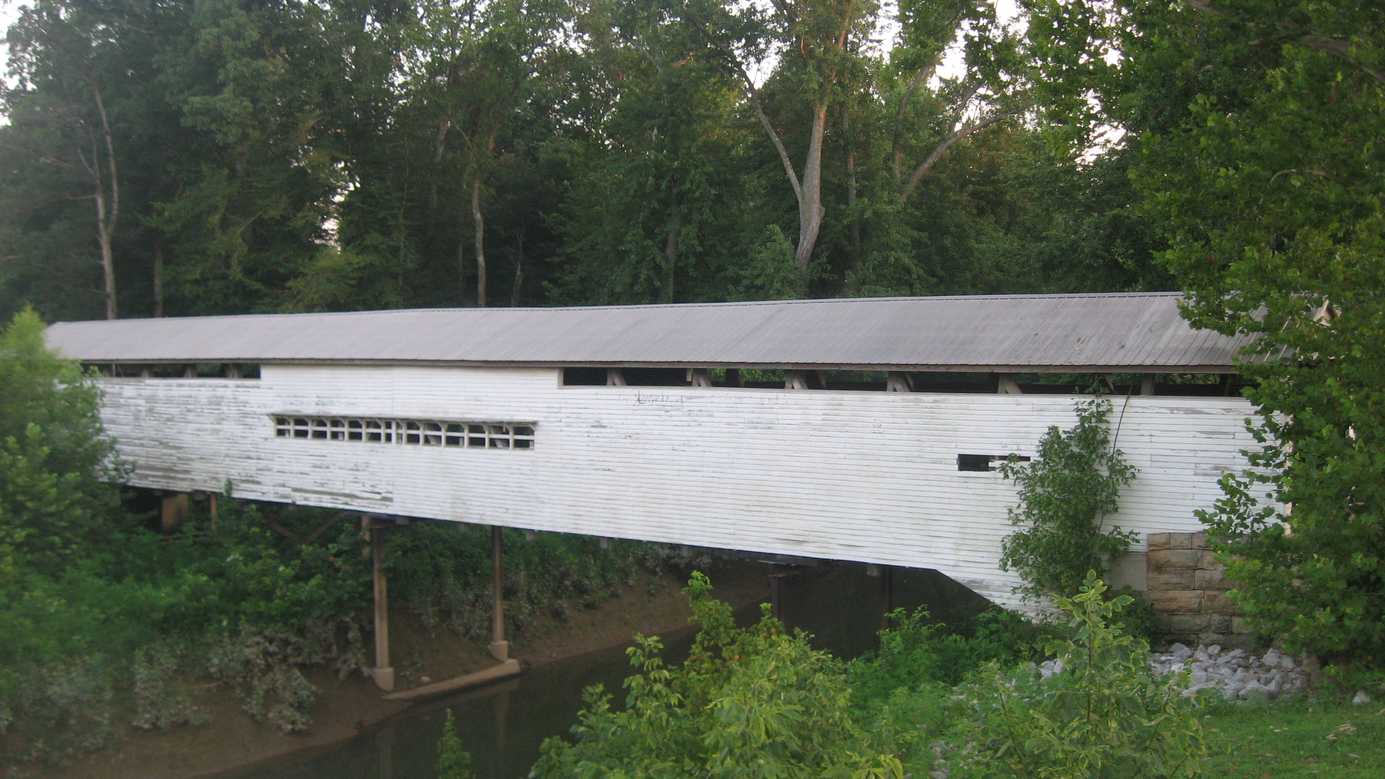 Eastern side of the Huffman Mill Covered Bridge, which formerly carried Huffman Mill Road over the Anderson River east of Fulda on the border between Perry and Spencer counties in the U.S. state of Indiana. Built in 1865 and since bypassed by a new concrete bridge, it is listed on the National Register of Historic Places.